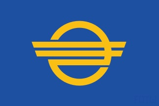 Flag of Kyonan Chiba